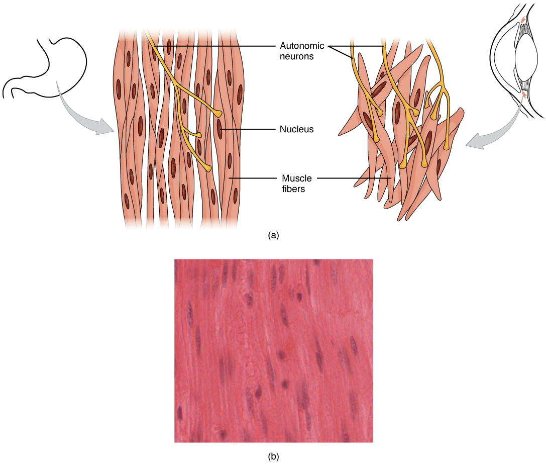 Version 8.25 from the Textbook OpenStax Anatomy and Physiology Published May 18, 2016